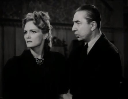 Elizabeth Russell and Béla Lugosi in The Corpse Vanishes (1942) - cropped screenshot